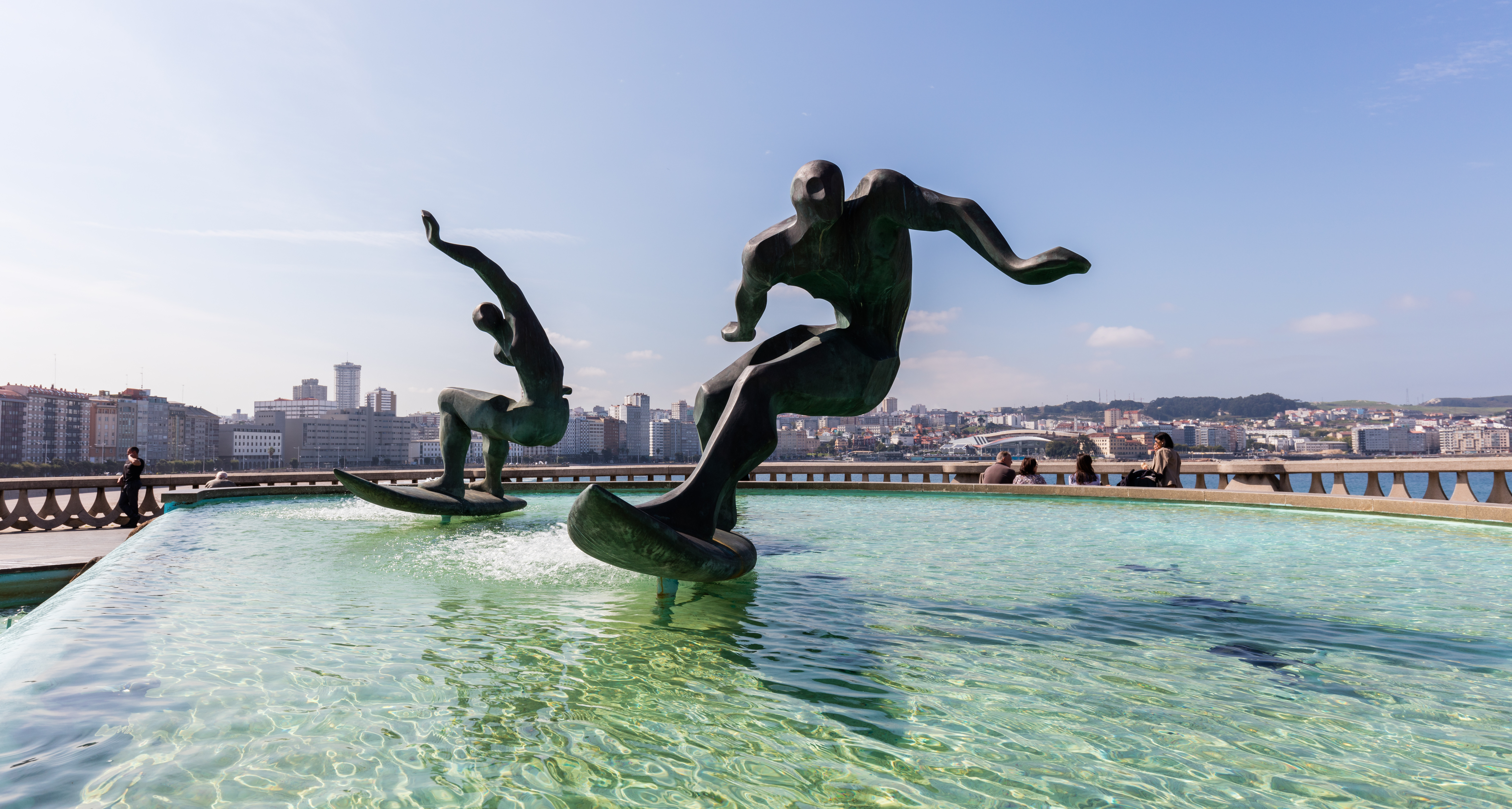 Fountain of the Surfers, La Coruña, Spain